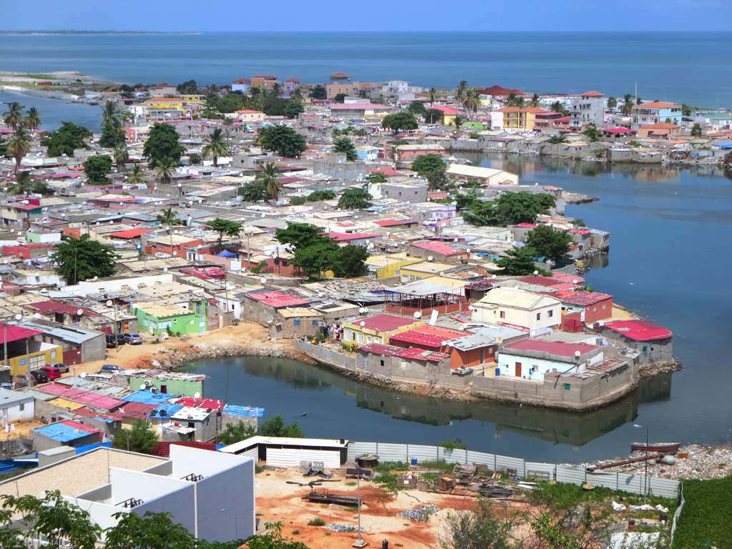 The crowded Chicala township in Luanda is only a few blocks from the Cidade Alta where Angola's president and other dignitaries live and work.